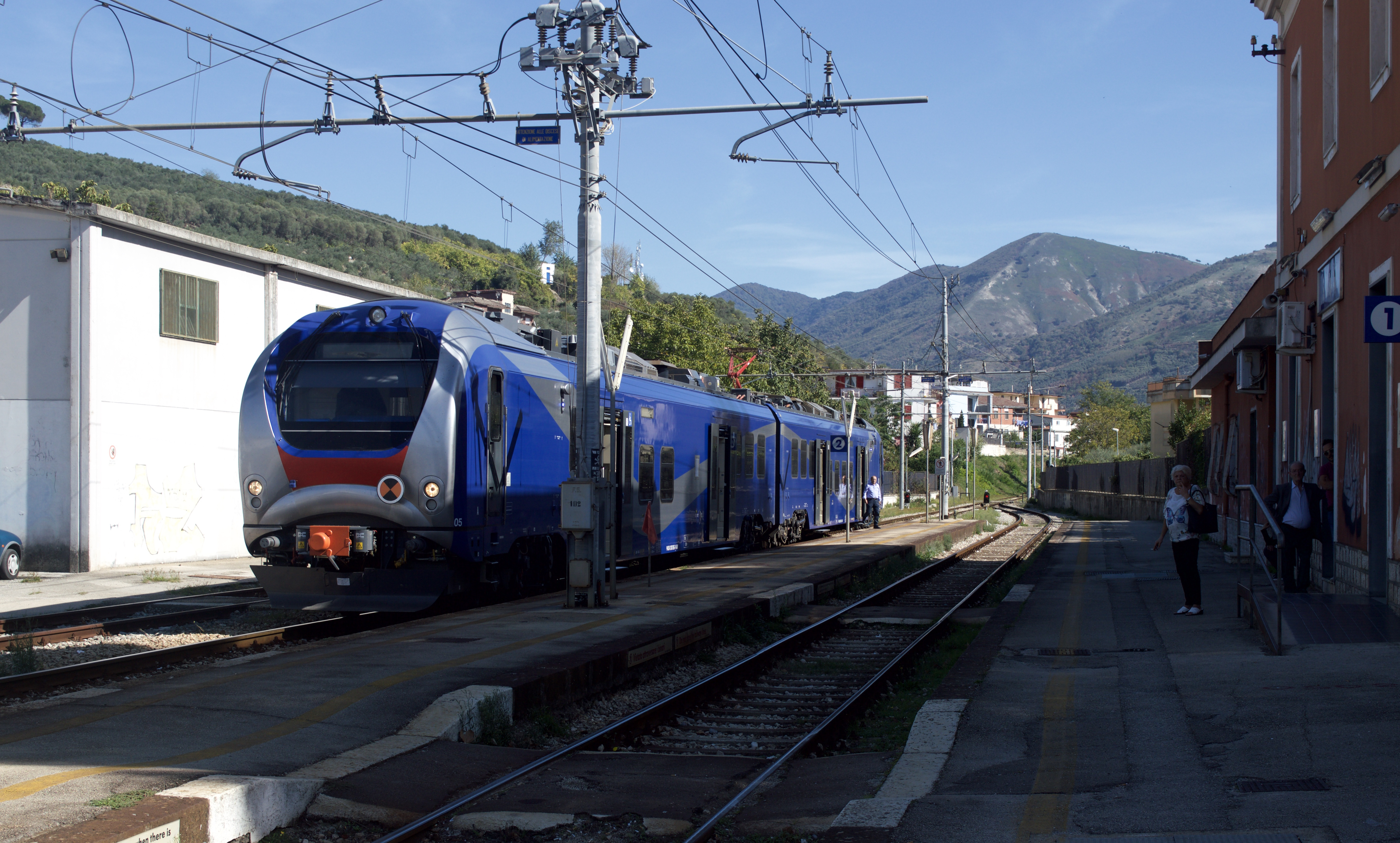 In 2013 private regional operator in the Napoli area Ente Autonomo Volturno (EAV) was formed by the merging of all remaining operators. Seen here is 2-car EMU ETR243.105 at Santa Maria a Vico on 14 October 2017 working train R3408, 12:20 Napoli Centrale to Benevento. I alighted here having travelled just two stops from the junction station of Cancello to complete a section of missing line which was closed for engineering work during my previous visit to the area. The line is the former Ferrovia Benevento Napoli (FBN) which was later merged with Ferrovia Alifana to form Ferrovia Alifana e Benevento Napoli (FABN). FABN later changed names to MetroCampania NordEst (MCNE) before the merge to form EAV.